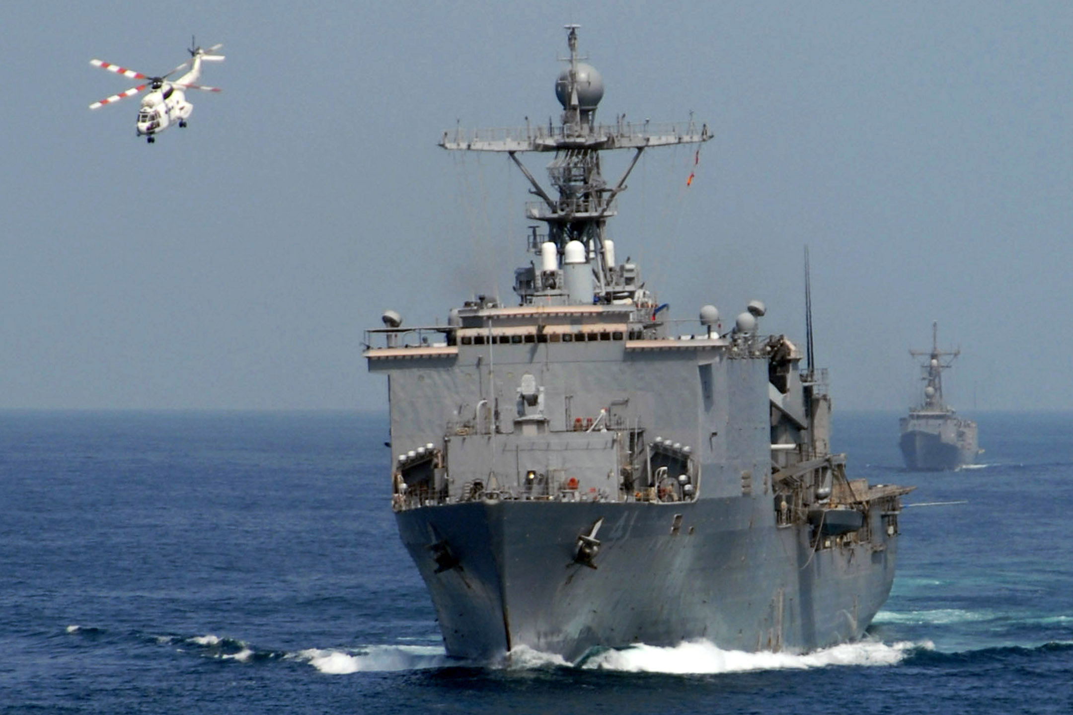 Dock landing ship USS Whidbey Island (LSD 41) sails behind the amphibious assault ship USS Iwo Jima (LHD 7) during a vertical replenishment (VERTREP). Iwo Jima recently deployed from her homeport of Norfolk, Va., and began a regularly scheduled six-month deployment to the U.S. European Command and U.S. Central Command (CENTCOM) areas of responsibility (AOR) to conduct Maritime Security Operations (MSO).